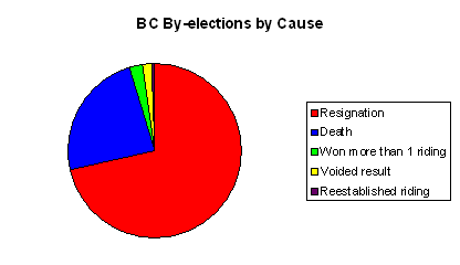 A pie graph of by-elections in British Columbia by cause. Specifically, of the 189 by-elections in BC as of February 2008, 135 have been due to resignations (many of these are due to the former rule that a person had to resign upon appointment to the Executive Council), 45 are due to deaths, 5 are because a person won in more than riding (this is now forbidden), 3 are due to a result being voided and a new election ordered, and one is due to a district being created in the middle of a parliament.